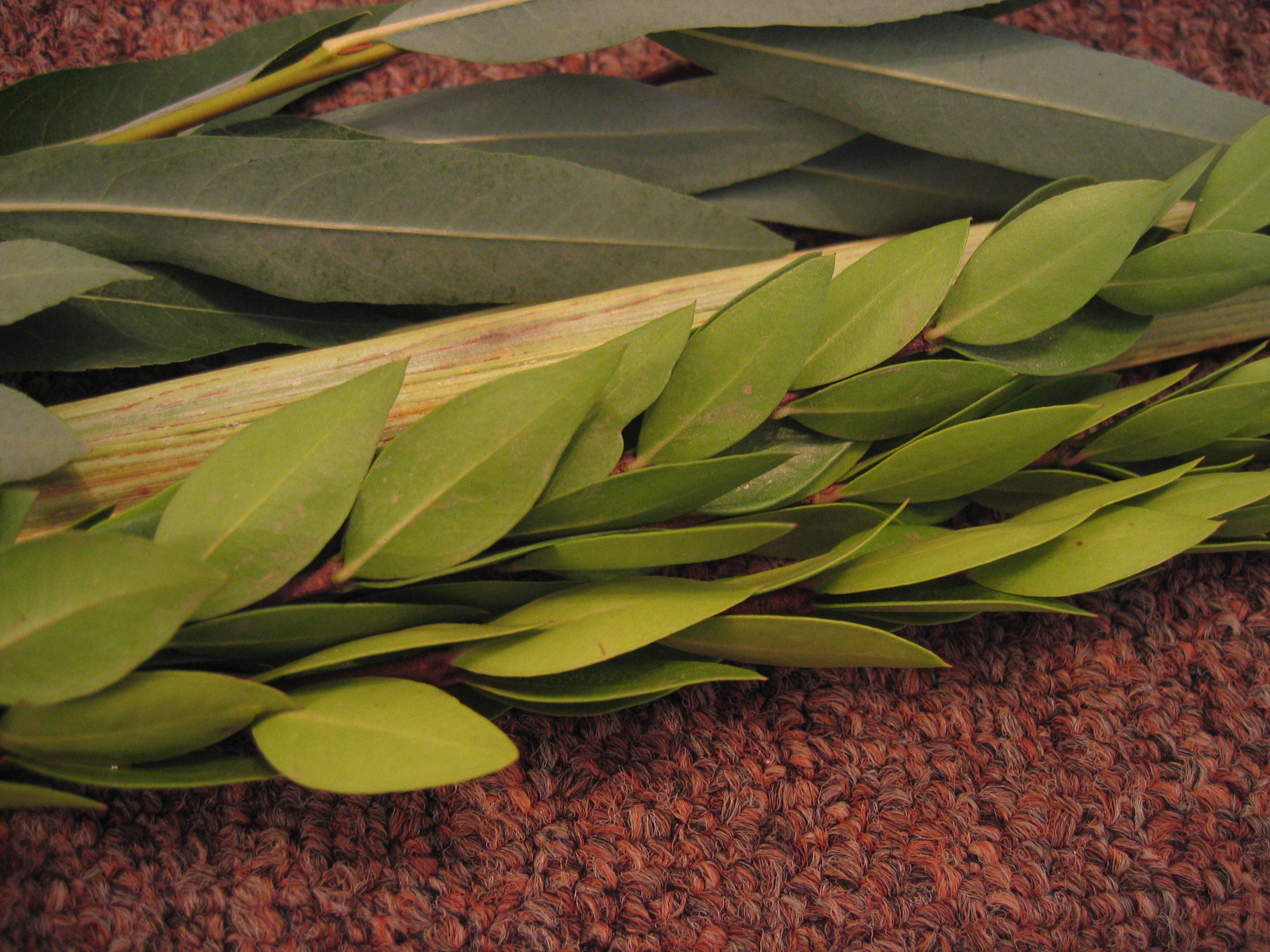 Hadassim (myrtle) for the Jewish holiday of Succot